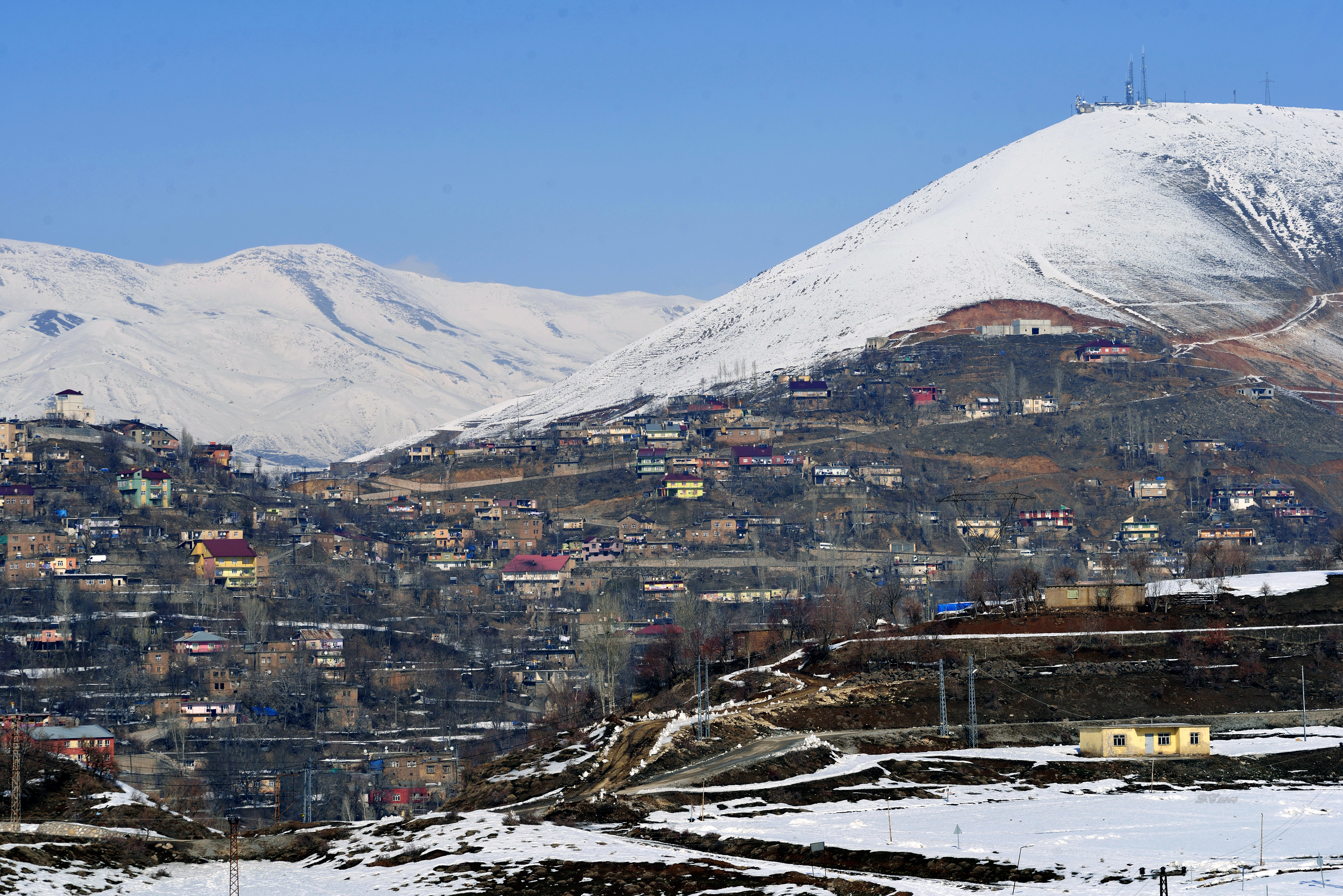 Kurdish village